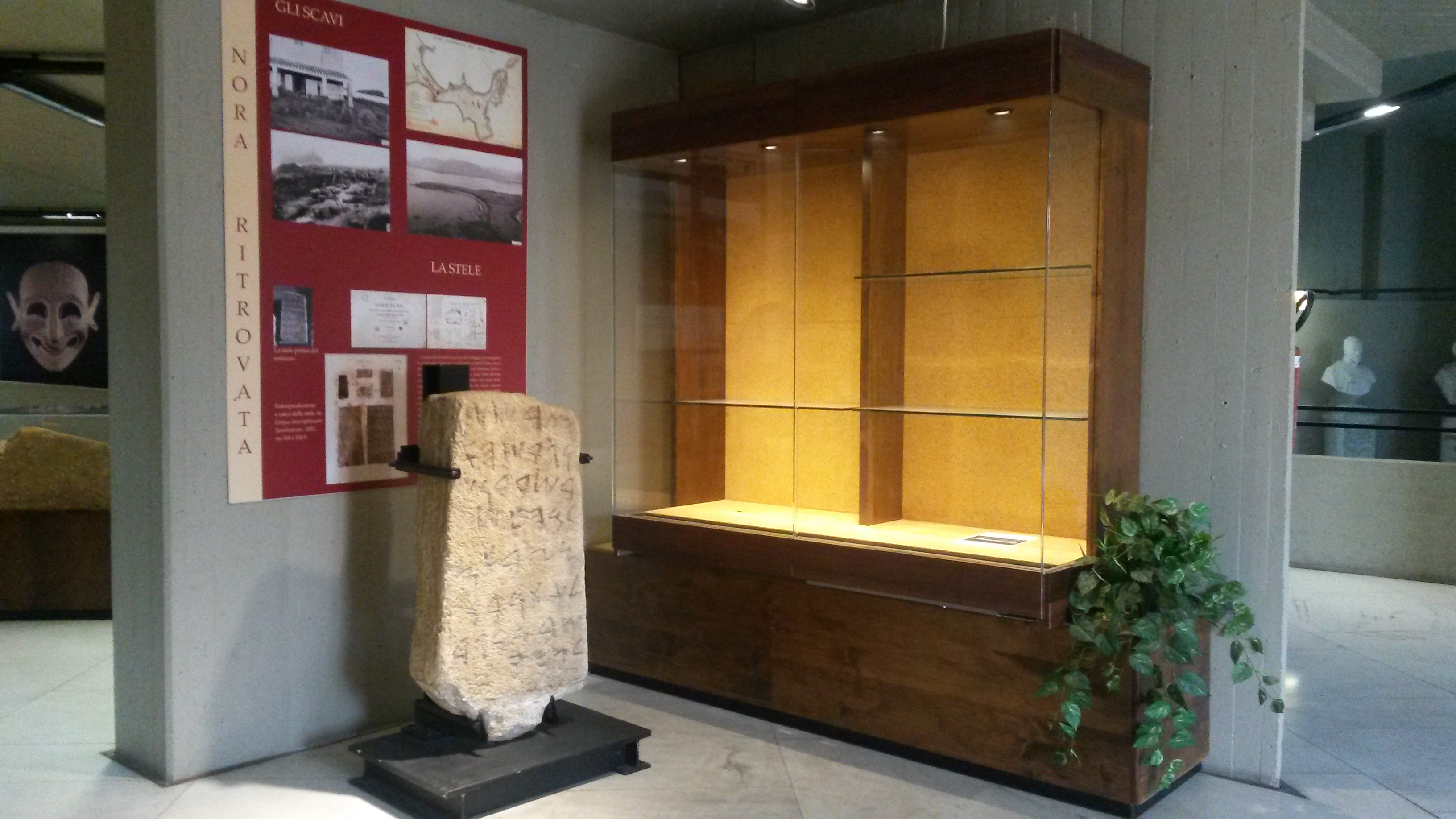 The so-called Nora Stone, the most ancient phoenician inscription ever found (in 1773) outside Phoenicia proper. Exhibitedy at the entrance of second floor of the Museo Archeologico Nazionale at Cagliari. This is a photo of a monument which is part of cultural heritage of Italy.